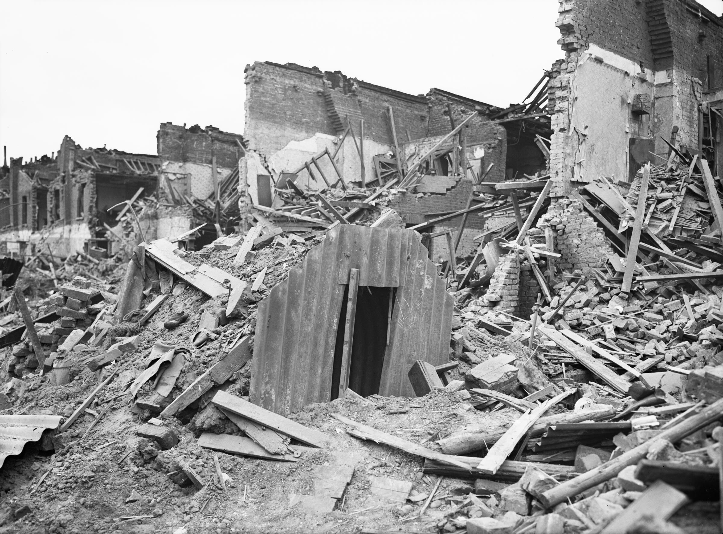 An Anderson shelter remains intact amidst destruction in Latham Street, Poplar, London during 1941. An Anderson shelter remains intact amidst destruction and debris, after a land mine fell a few yards away. The three people that had been inside the shelter were not hurt. The effects of air raids in this area of London can be clearly seen behind the shelter. This photograph was taken on Latham Street in Poplar.